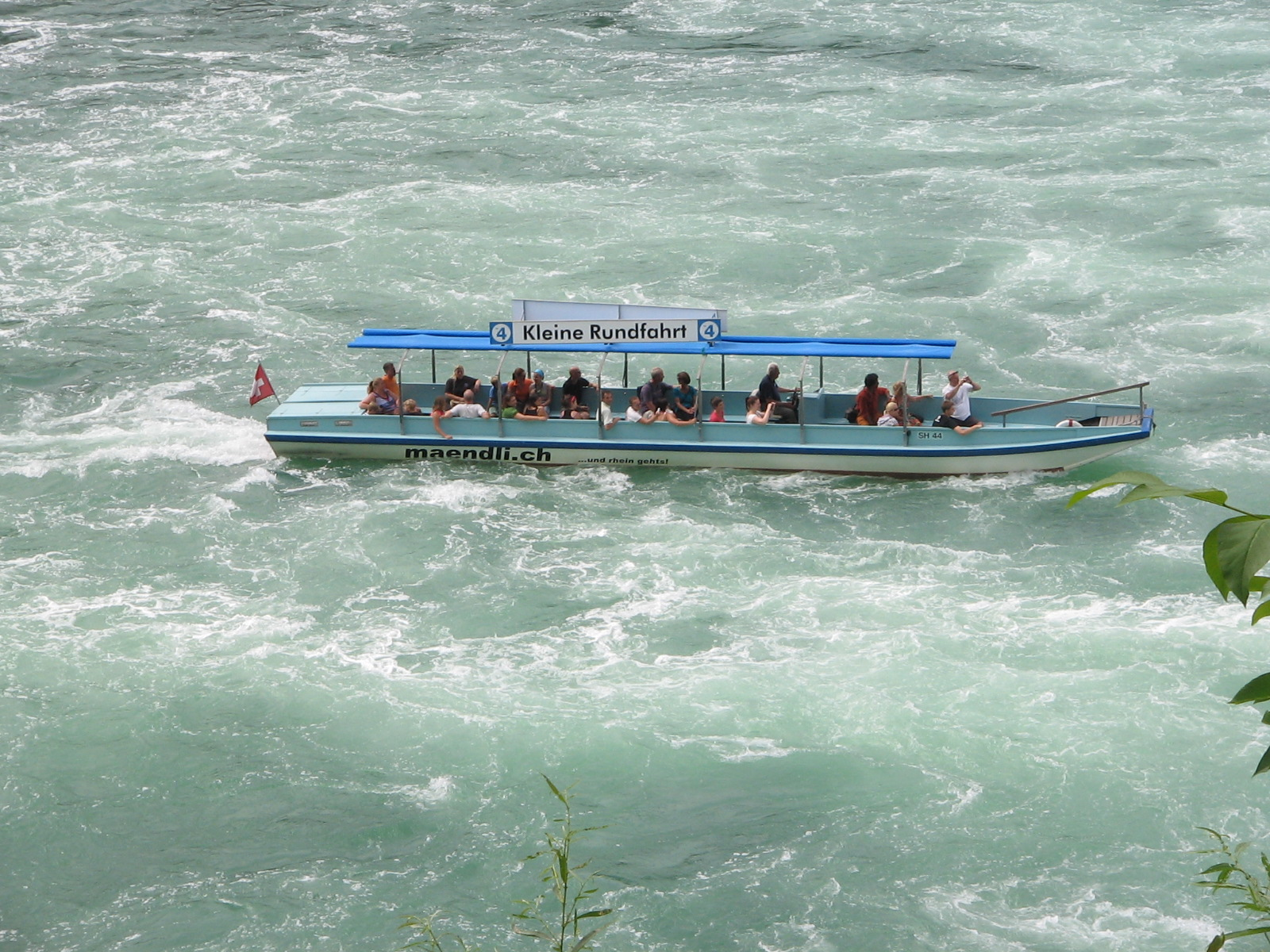 The blue boat, 1 of the boat trips at the Rheinfall in Schaffhausen.